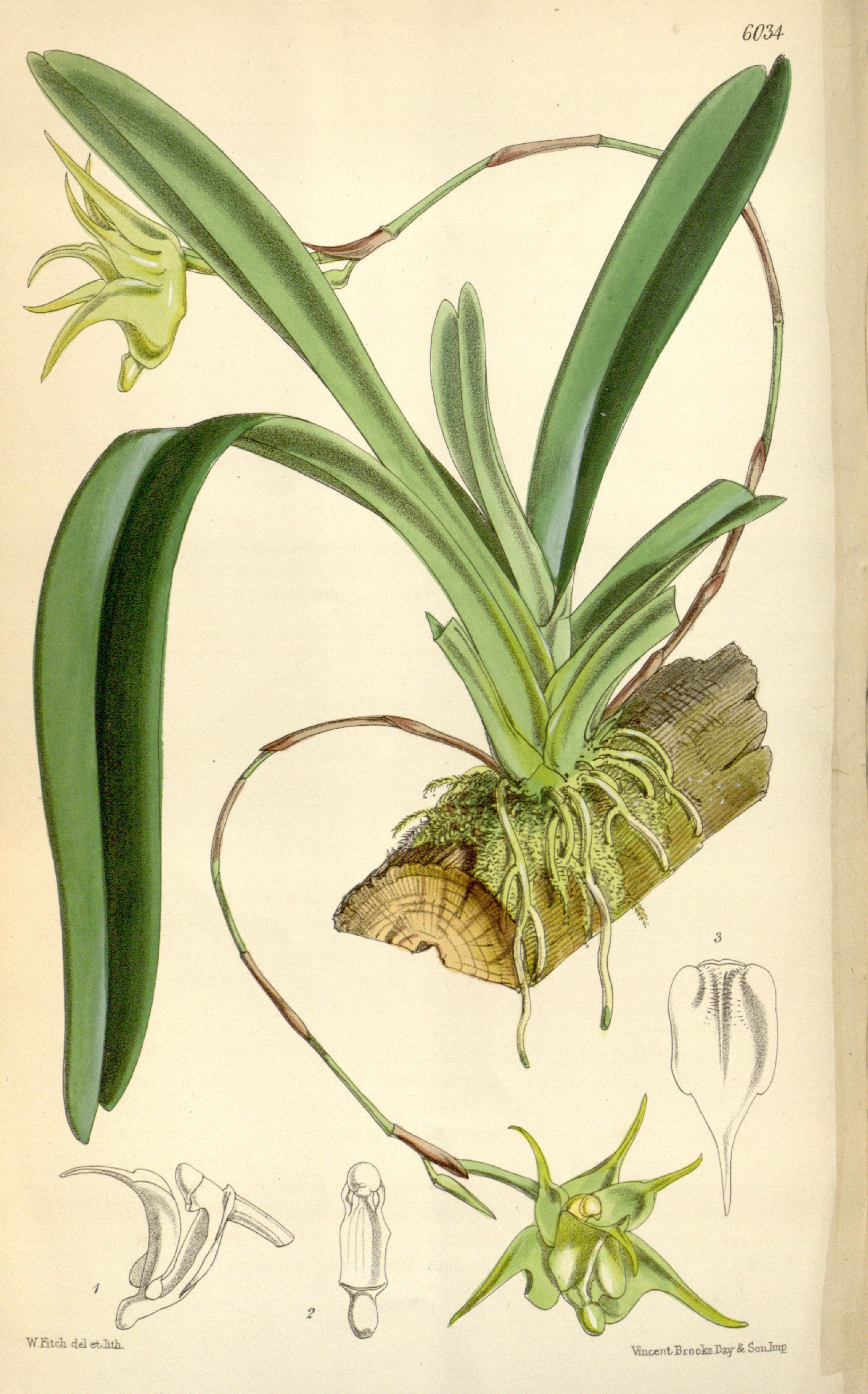 Illustration of Aeranthes arachnitis (spelled by Hooker as Acranthus arachnitis)